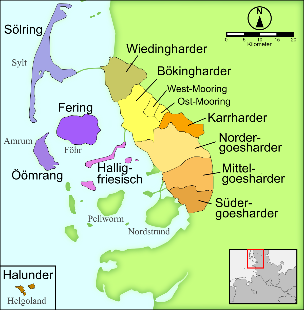 Map showing the distribution of North Frisian dialects